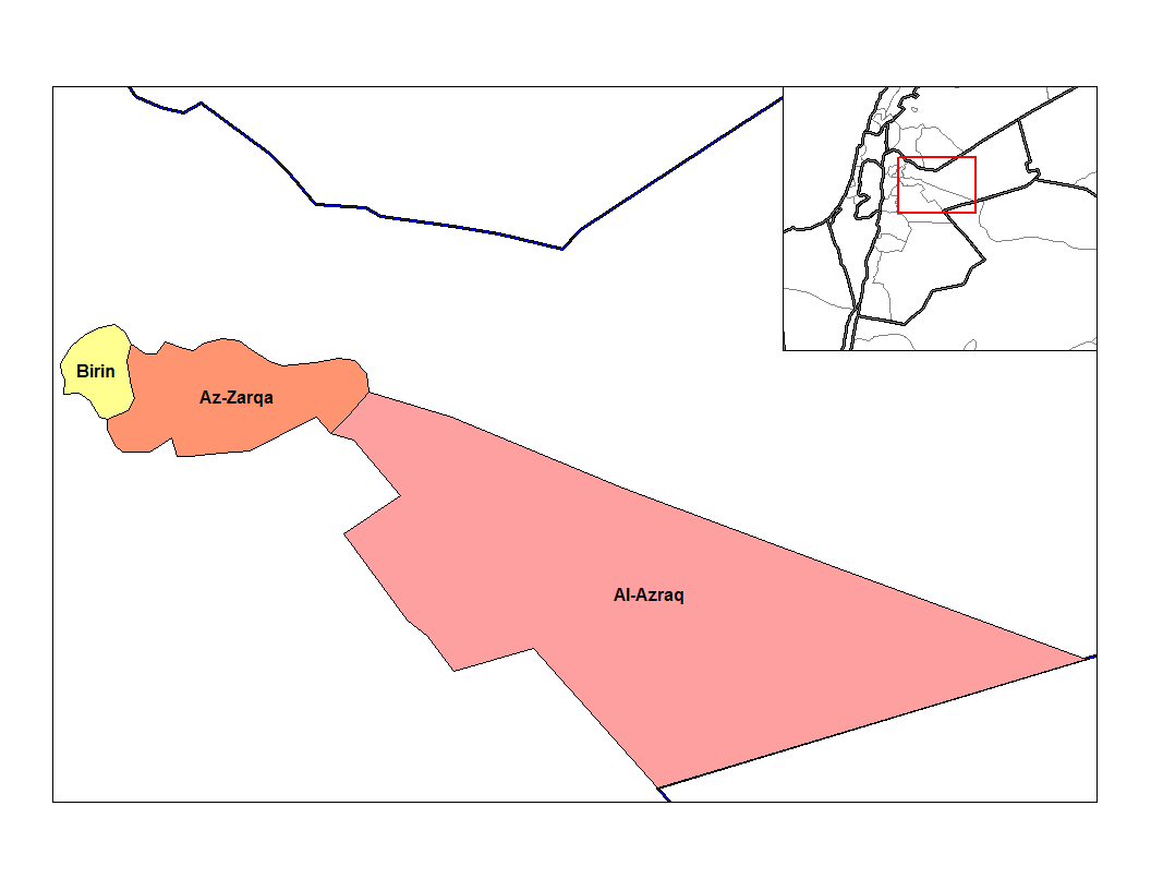 Map of the nahias of Zarqa governorate in Jordan. Created by Rarelibra 21:08, 27 December 2006 (UTC) for public domain use, using MapInfo Professional v8.5 and various mapping resources.